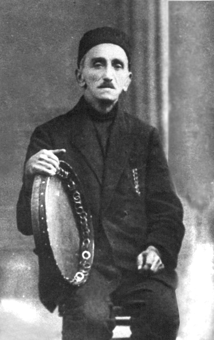 Cabbar Qaryagdioglu is an Azerbaijani singerAzərbaycanca: Cabbar Qaryağdıoğlu (31 mart 1861 - 20 aprel 1944) — xanəndə, bəstəkar, musiqi xadimi. Azərbaycanın xalq artisti (1935). Azərbaycan xanəndəlik sənətinin ən görkəmli nümayəndələrindən biri